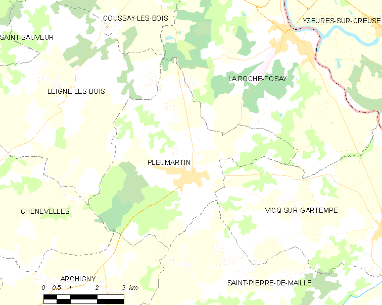 Map of French municipality Pleumartin